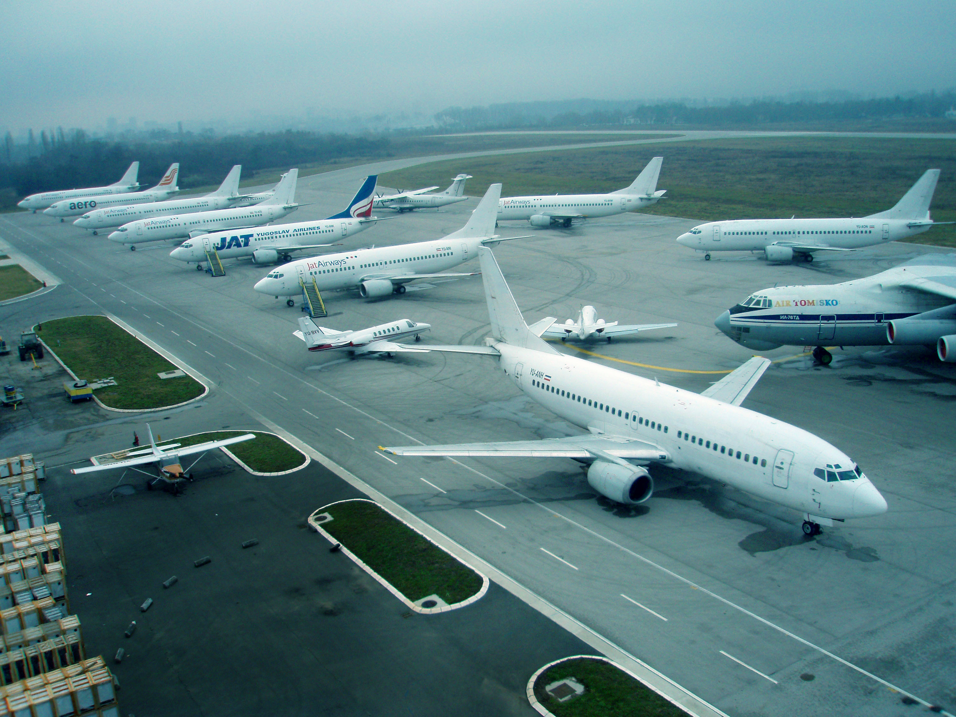 Busy morning at Nis Airport